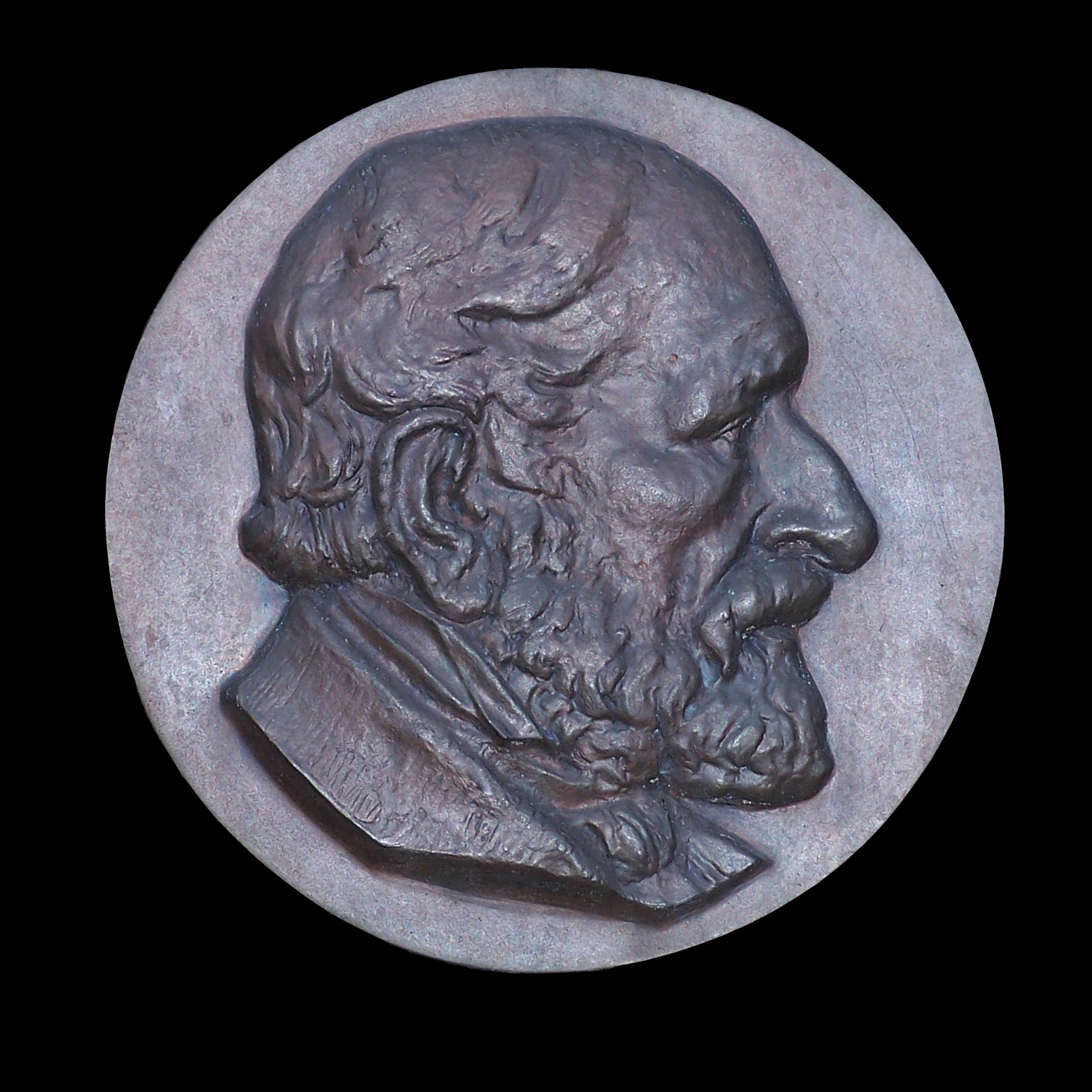 Portrait of Johann Jacob Baeyer, taken from the memorial in Berlin-Müggelheim and edited with Photoshop.